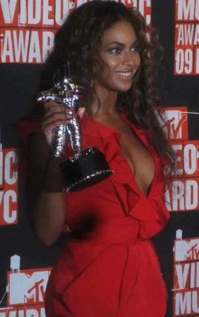 Beyoncé Knowles at the 2009 MTV Video Music Awards.